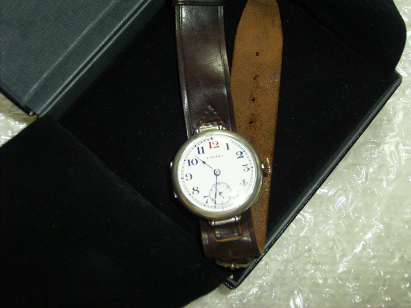 Seikosya Laurel